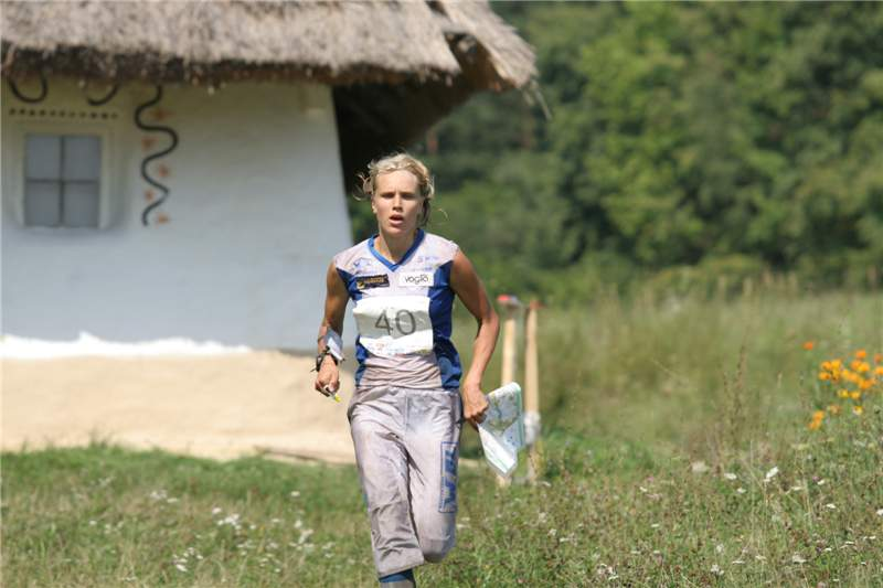 World Orienteering Championships 2007 in Kiev, Ukraine. On photo Finn Minna Kauppi.